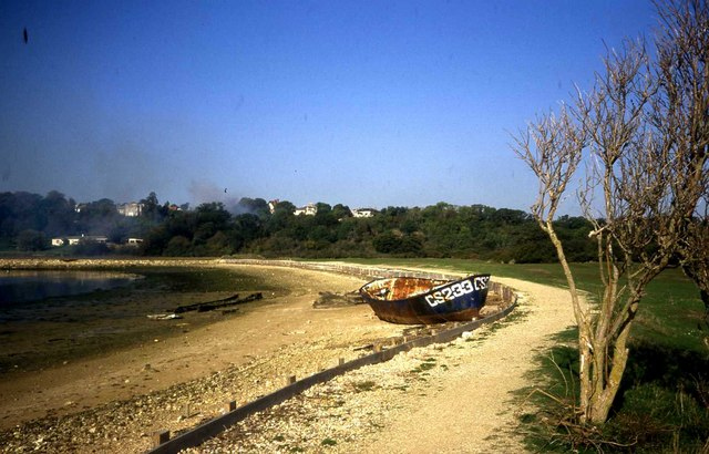 Abandoned boat near The Causeway at St Helens